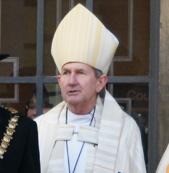 Bishops of the Diocese of Chelmsford